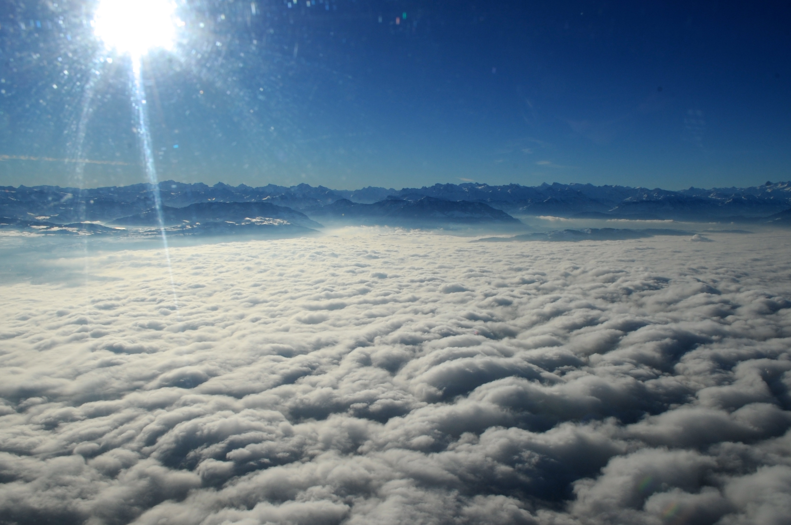 A blanket of clouds cover the terrain leading up to a section of Swiss Alps, as seen from the helicopter carrying U.S. Secretary of State John Kerry as he flew between Davos, Switzerland, and Zurich on Jan. 25, 2014. [State Dept. Photo/Public Domain]